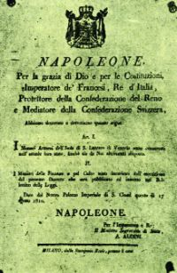 հռչակագիր պատվավոր տիտղոսով